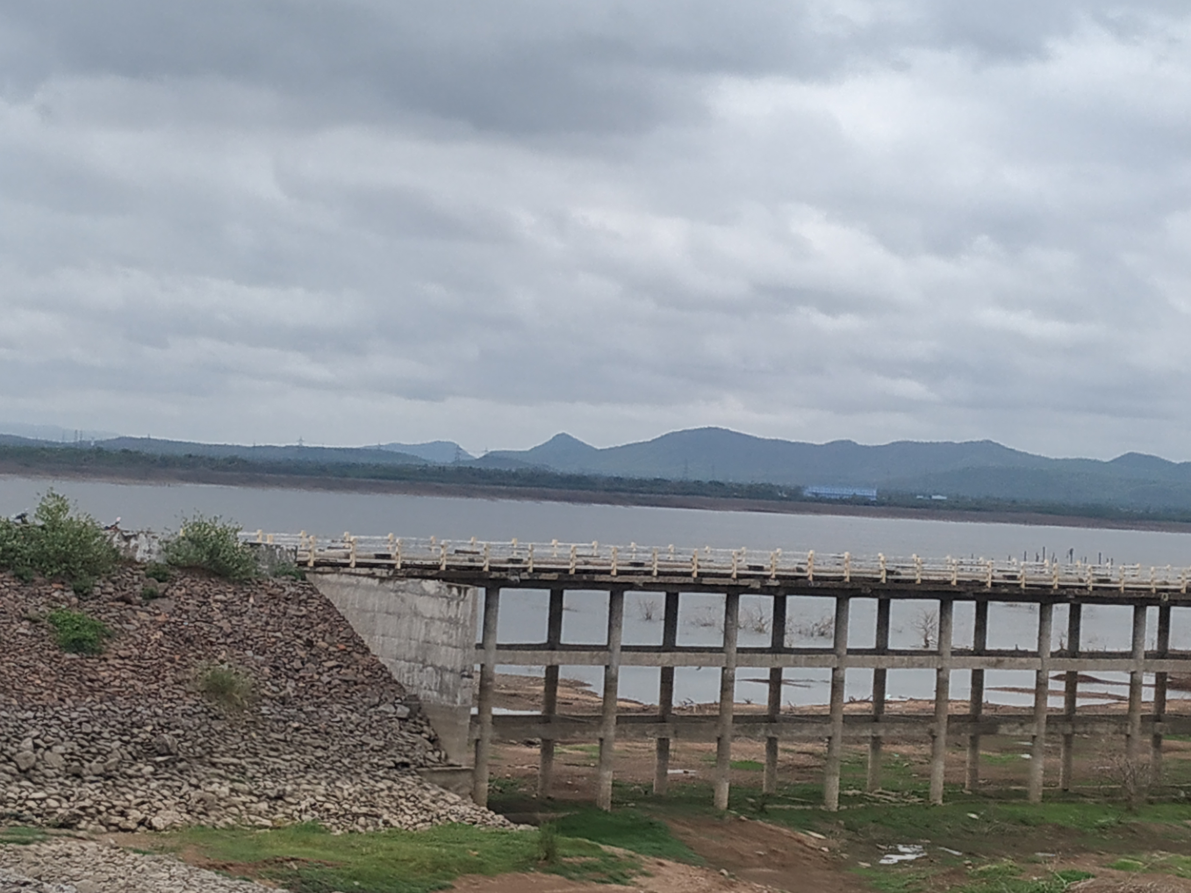 yellampelli project which is in mancherial district .. 50km from karimnagar